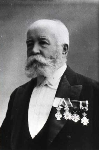 Bernhard Christoffer Wilkens Bøggild (1858-1928), Danish professor of agriculture and dairy products